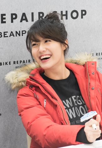 Nam Ji-hyeon (actress, born 1995) at HugDown Celebration, on Dec 11, 2014